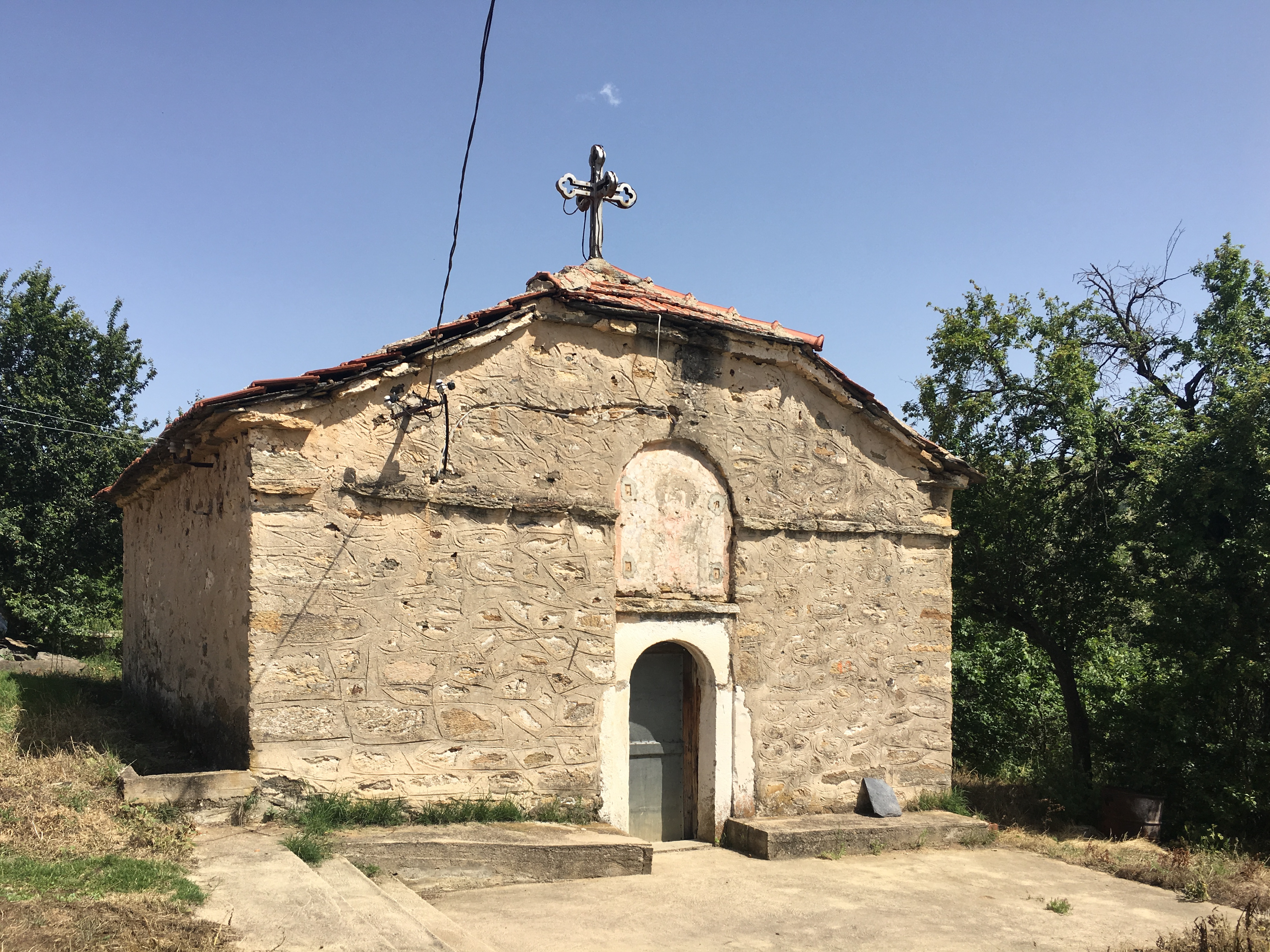 St. Athanasius Church's yard in the village of Mojno